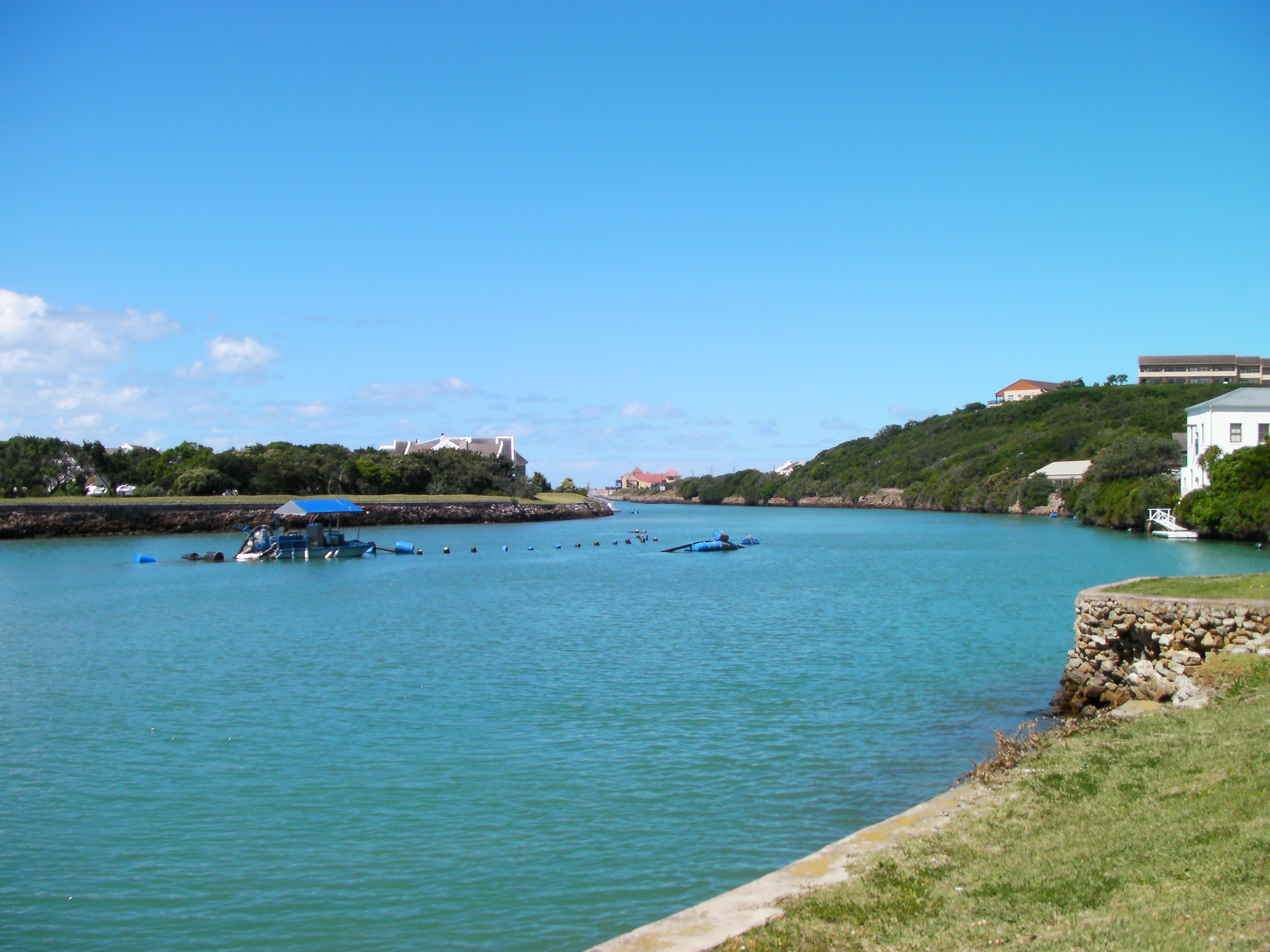 Section of the canals at Port Alfred in the Eastern Cape, South Africa.